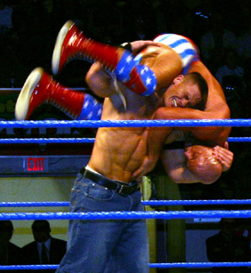 Cropped version of Image:John Cena hits the F-U on Kurt Angle.jpg, wwe superstar John cena Photo by by static: Category:Professional wrestling free use media John Cena gives Kurt Angle his finishing F-U manuever on a WWE house show held in Kitchener, Ontario, Canada on January 15, 2005. (Cropped from Flickr)